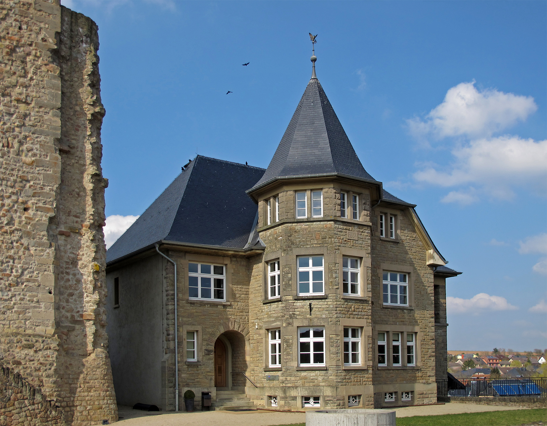 Town hall on castle Useldange